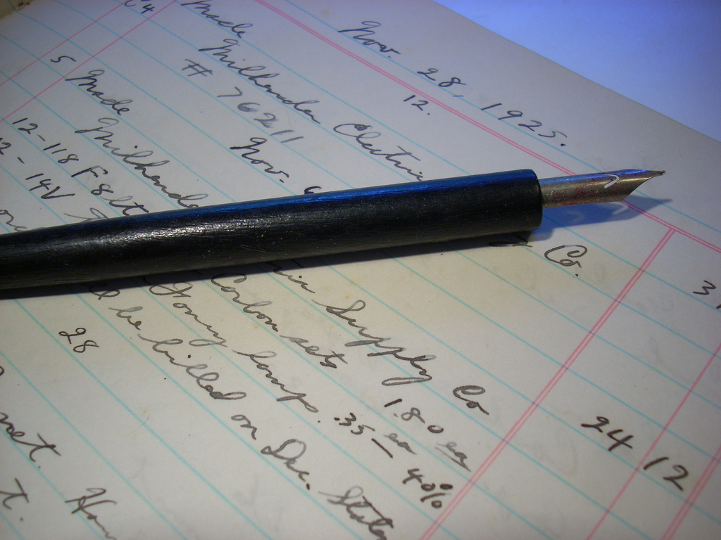 Dip Pen with Nib. Popular from the late 19th to the early 20th century. The kind that cost a nickel and commonly used in school.